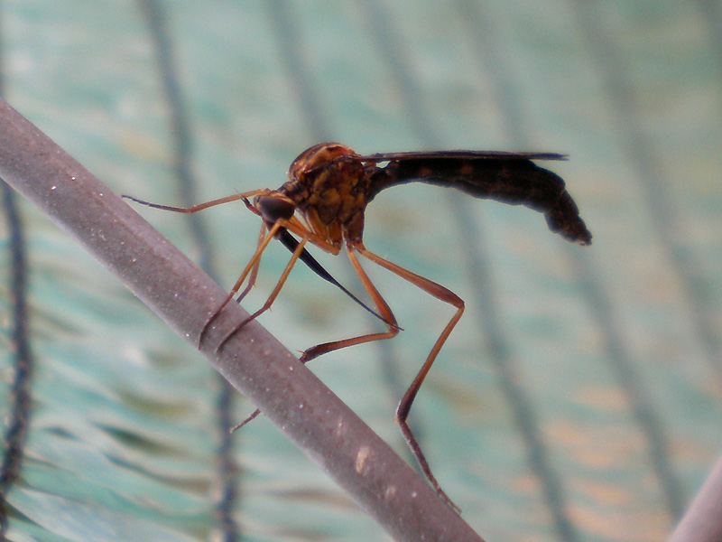 Near Tàrrega, Lleida, Catalonia. July 1, 2007